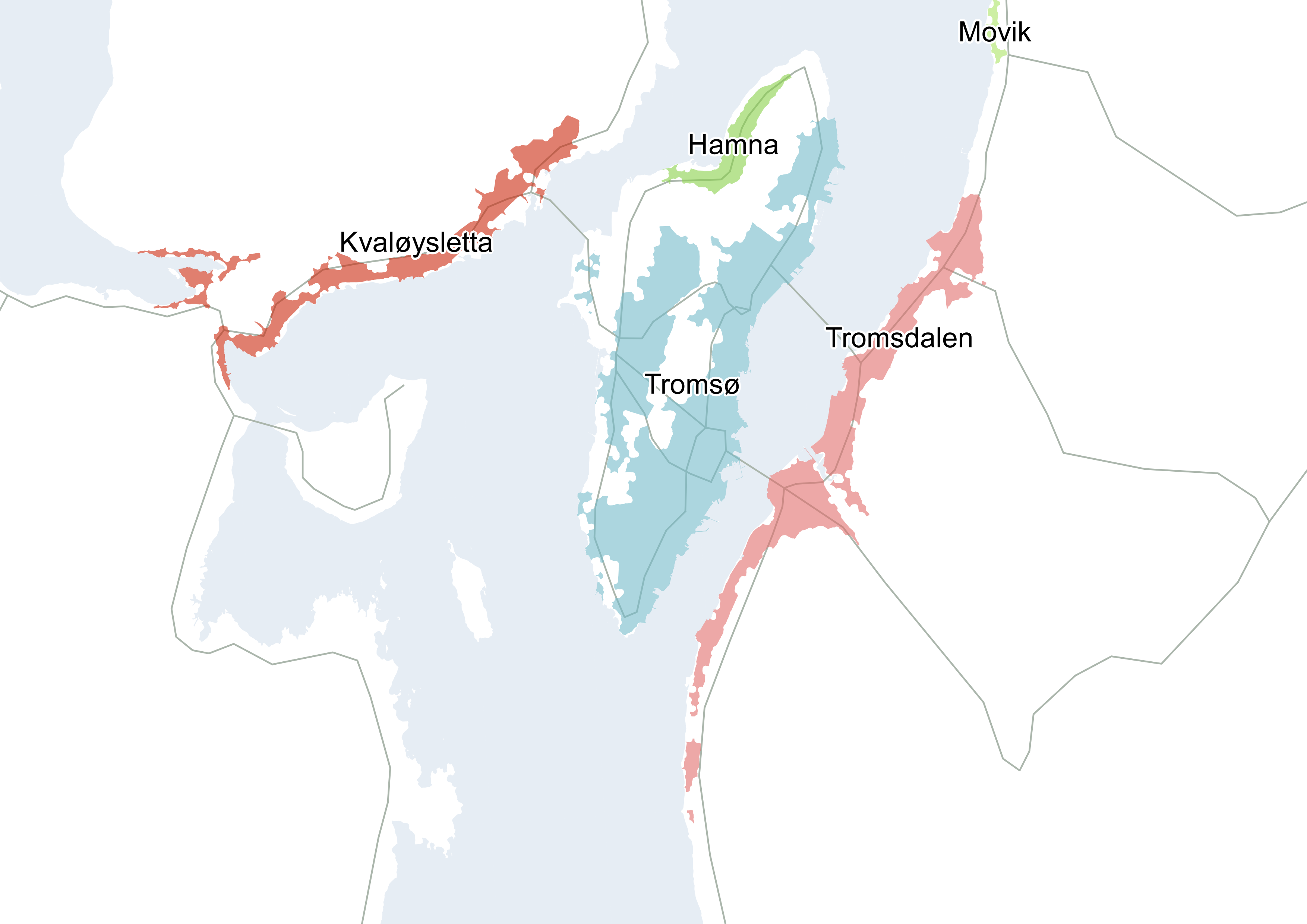 Urban areas of Tromsø